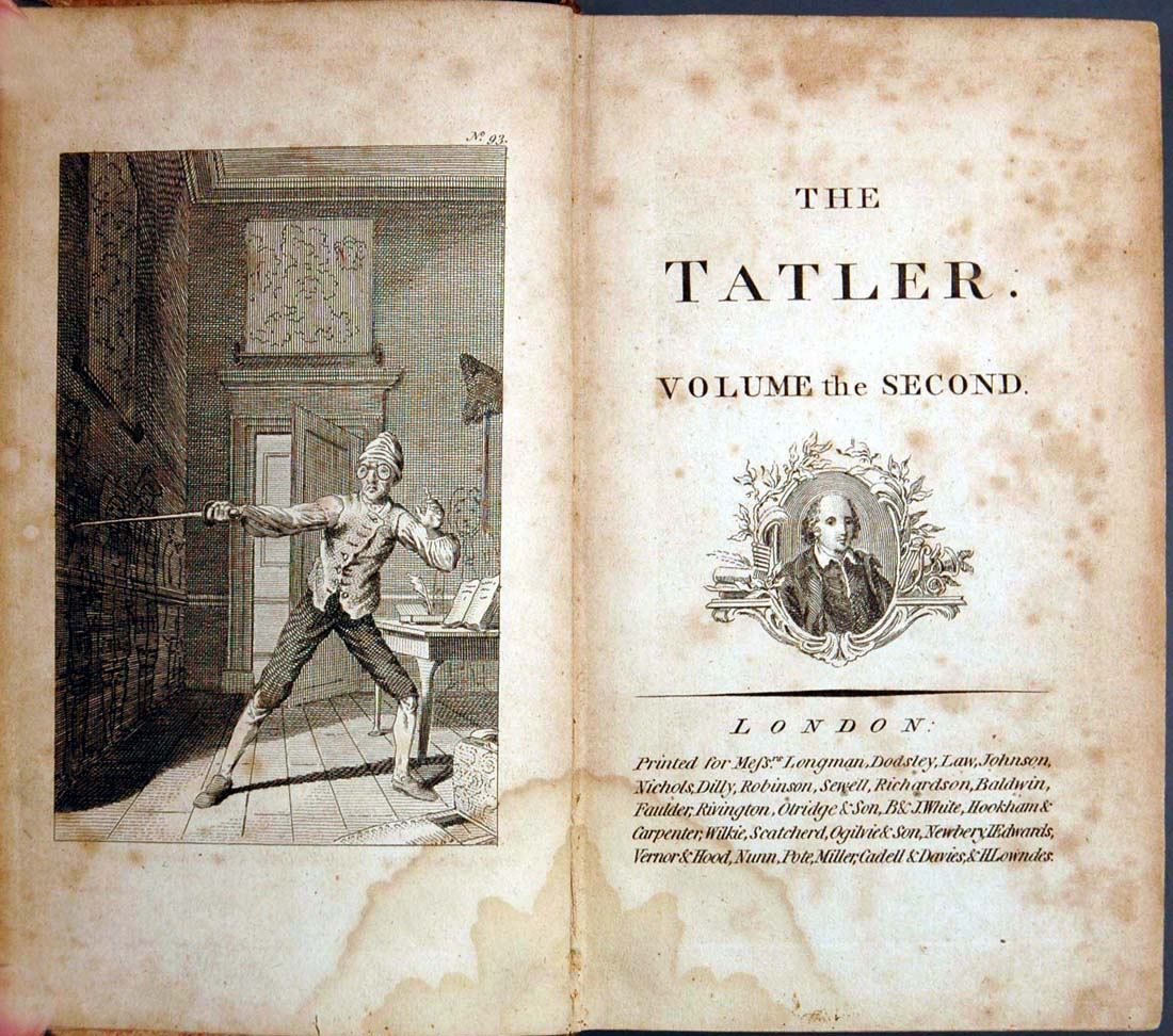 The Tatler, British magazine, 1709-1711, edited by Joseph Addison and Richard Steele.